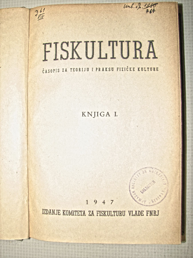 Physical culture, scientific journal from Serbia - cover, 1947, serbian